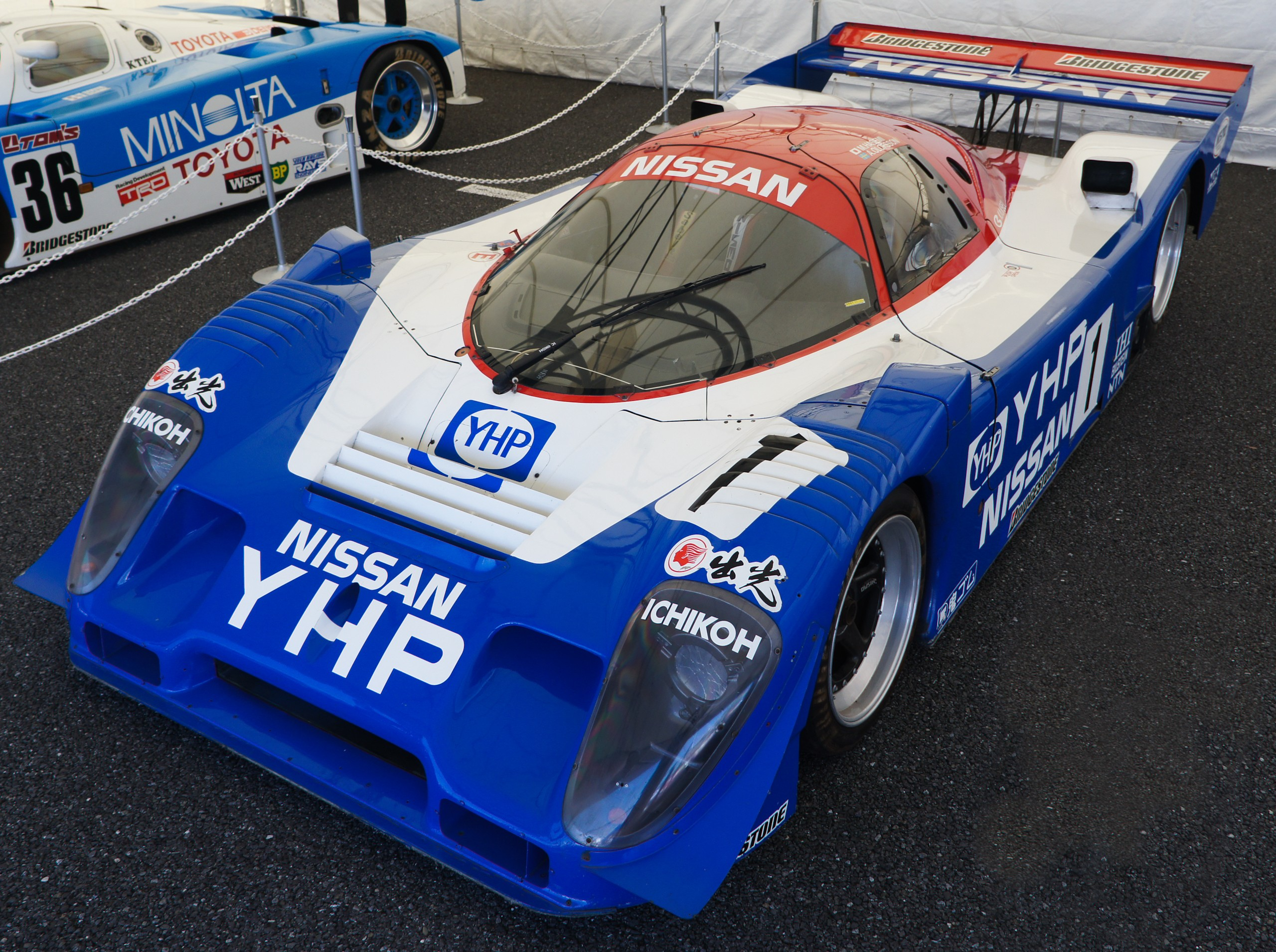 Motorsport Japan 2011: Nissan R90CP